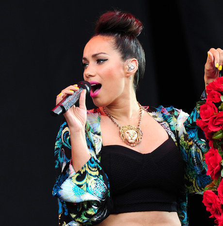 Leona Lewis Hackney Weekend 2012